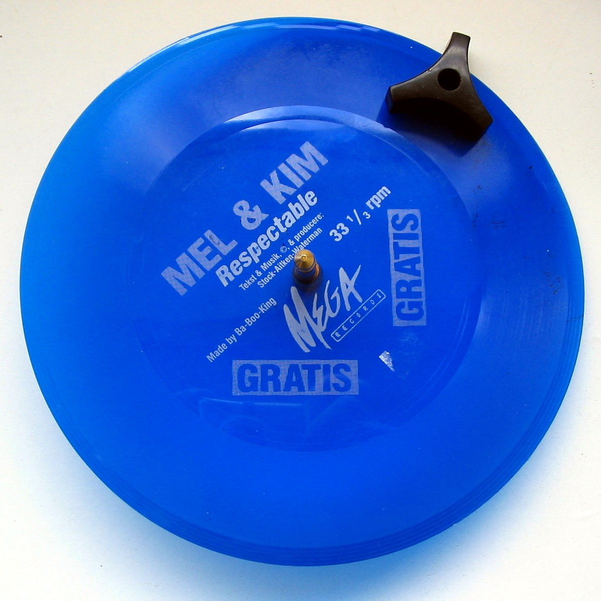 unusual gramophone records: a blue promotional single with Respectable by Mel & Kim